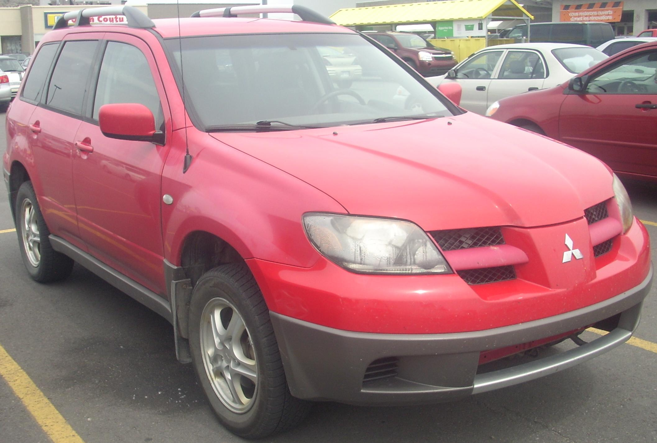 2003-2005 Mitsubishi Outlander photographed in Salaberry De Valleyfield, Quebec, Canada